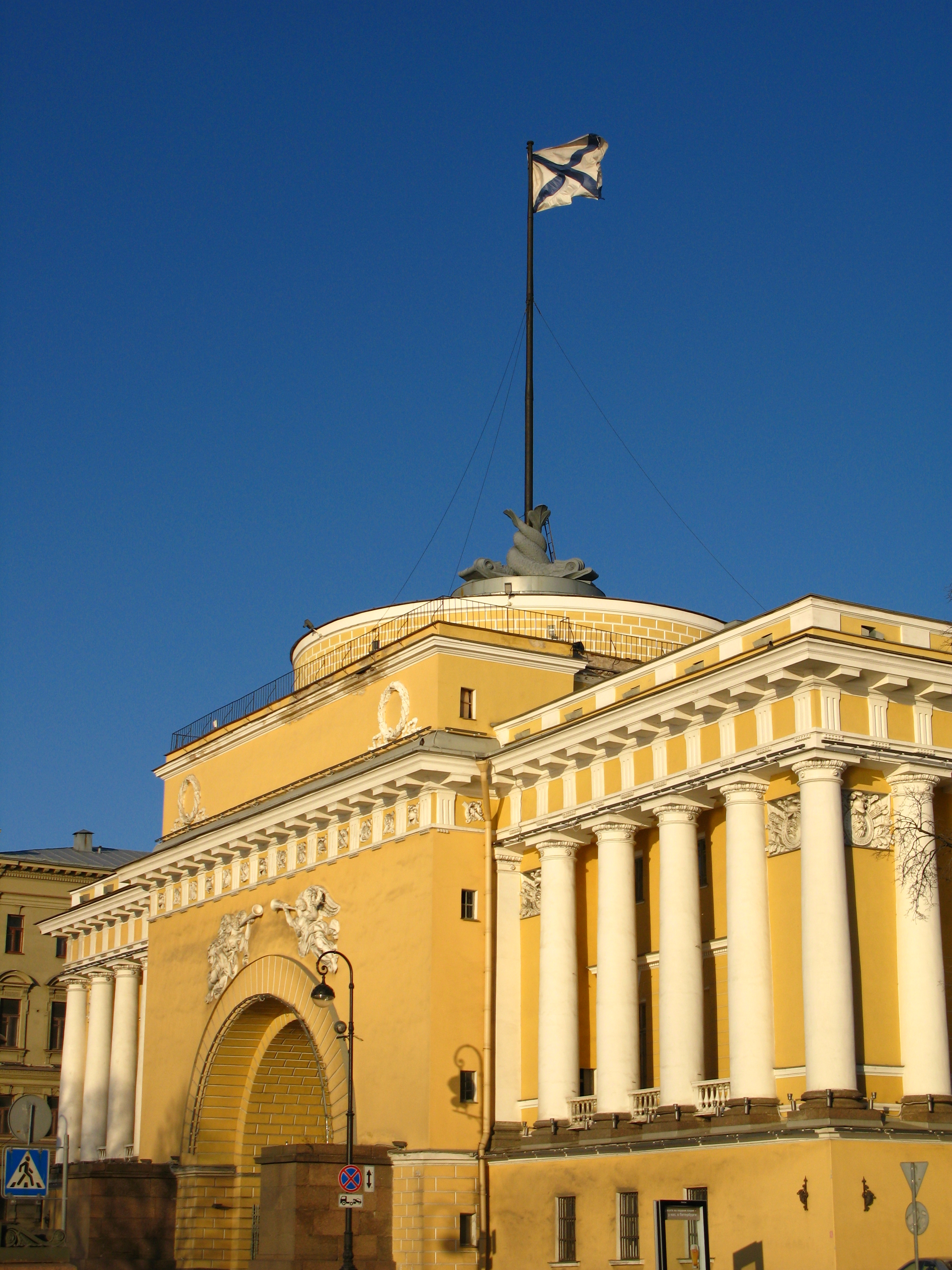 Russian Admiralty in Sankt Peterburg, Russia.